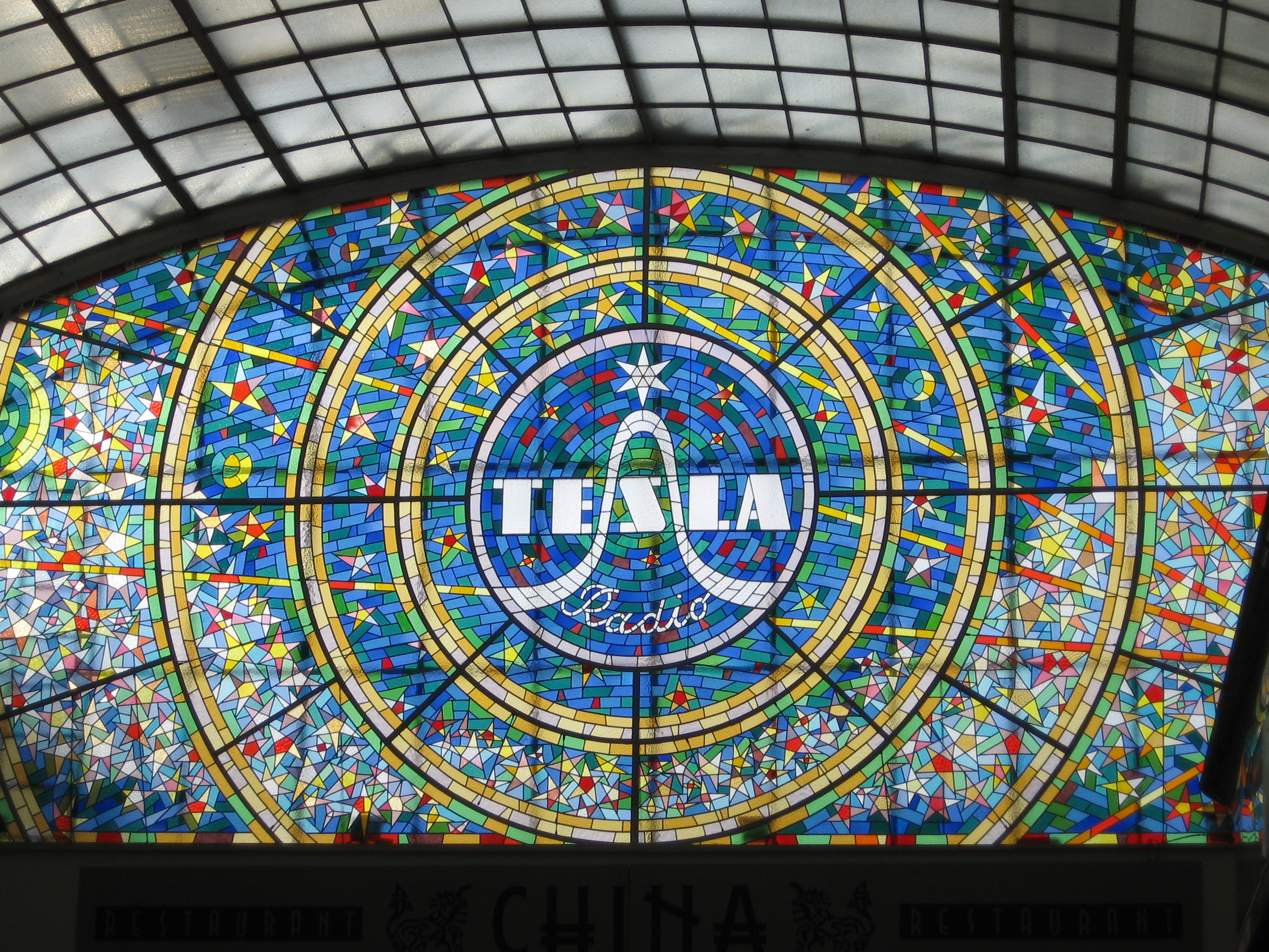 Stained glass with logo of the Czechoslovak company Tesla Radio in Pasáž Světozor, Vodičkova ulice, Praha